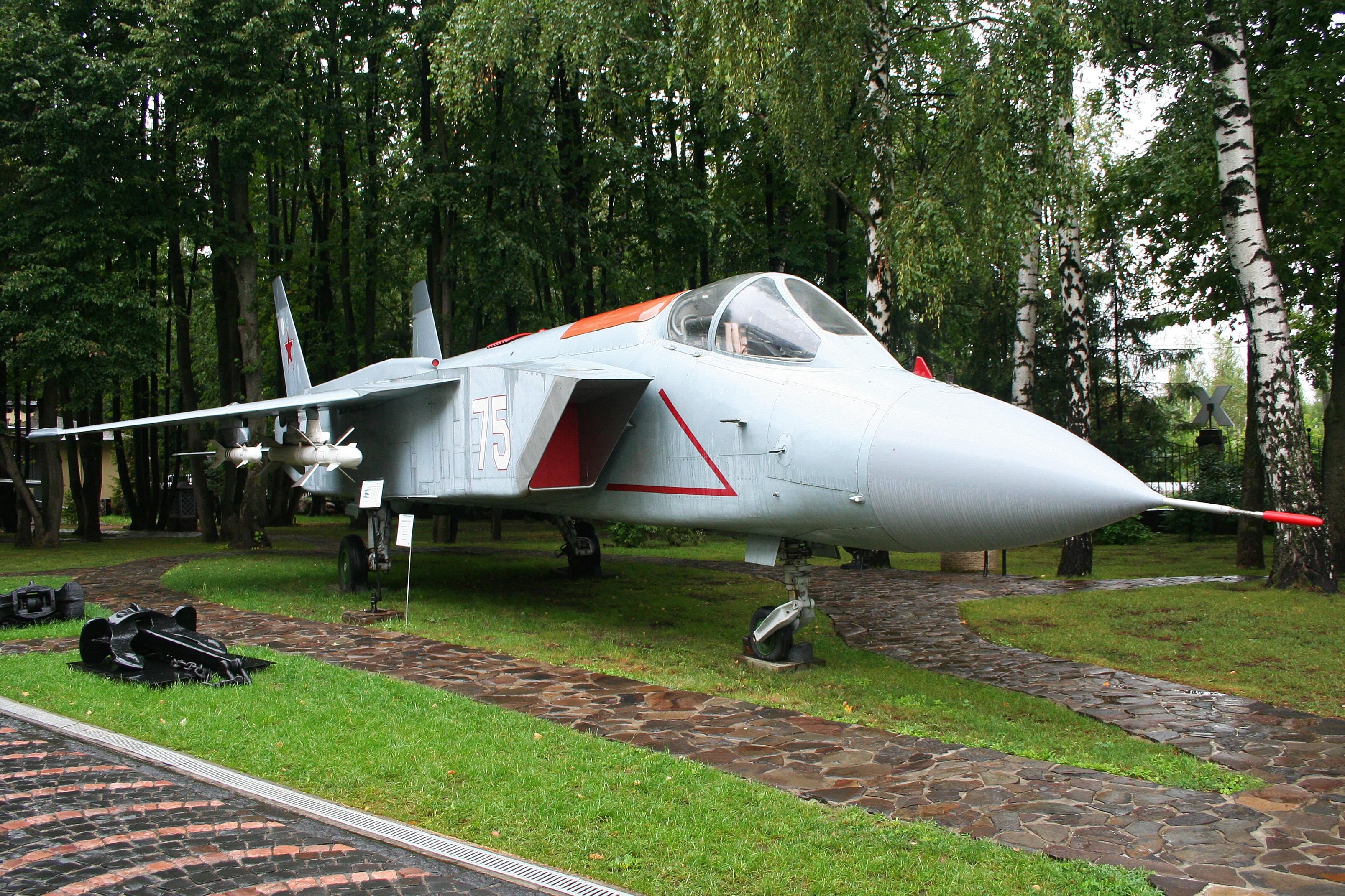 OK, this is complicated! This VSTOL type was designed as replacement for the Yak-38 Forger. It's military designation was the Yak-41M, however, for political and security reasons the aircraft was referred to as the Yak-141 in press releases for the 12 class World records which they set. Three aircraft were built, the first (48-1) remained as a static test airframe while 48-2 (coded 75 white) and 48-3 (coded 77 white) were flight test aircraft. In 1991 Lockheed-Martin got involved in the project and as they only knew the type as the '141' then that's how it has been known since then. At that time, both complete aircraft were recoded '141 white'. In September 1991, this aircraft (48-3) suffered a landing accident on the carrier 'Admiral Gorshkov' and was damaged by the resulting fire. Stored, it was later statically rebuilt for display in Yakolev's own museum. When the second aircraft (48-2) stopped flying, it was also preserved. Initially it was at Khodynka but it later moving to Monino, where it remains. Throughout preservation, 48-2 has remained coded '141 white', a code accurate for both airframes. For some unexplained reason, 48-3, which was originally '77 white' was repainted as '75 white', a code only ever worn by 48-2. Detail differences between the two, particularly in the tail area, confirm that this is, in fact, 48-3, although painted to represent 48-2, which, remember, is preserved at Monino as '141 white'. Clear? I did say it was complicated!! Vadim Zadorozhny Technical Museum, Arkhangelskoye, Moscow. Russia. 14-8-2012